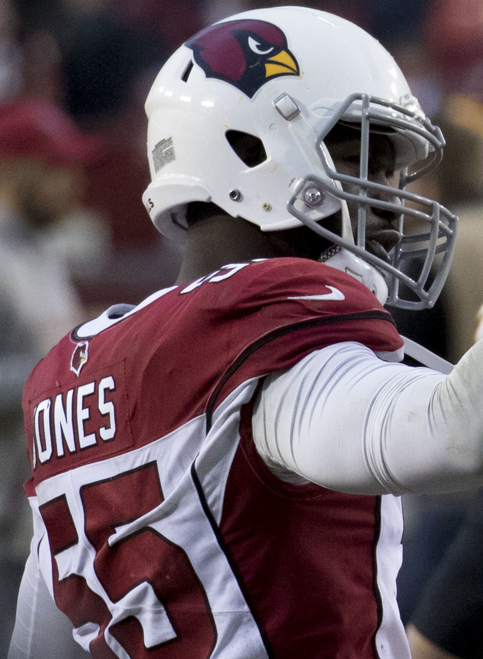 Cardinals at Redskins 12/17/17